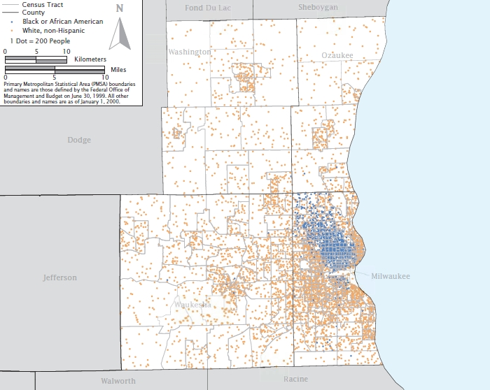 A map showing residential black segregation in the 2000 Census' most segregated American city, Milwaukee, Wisconsin.